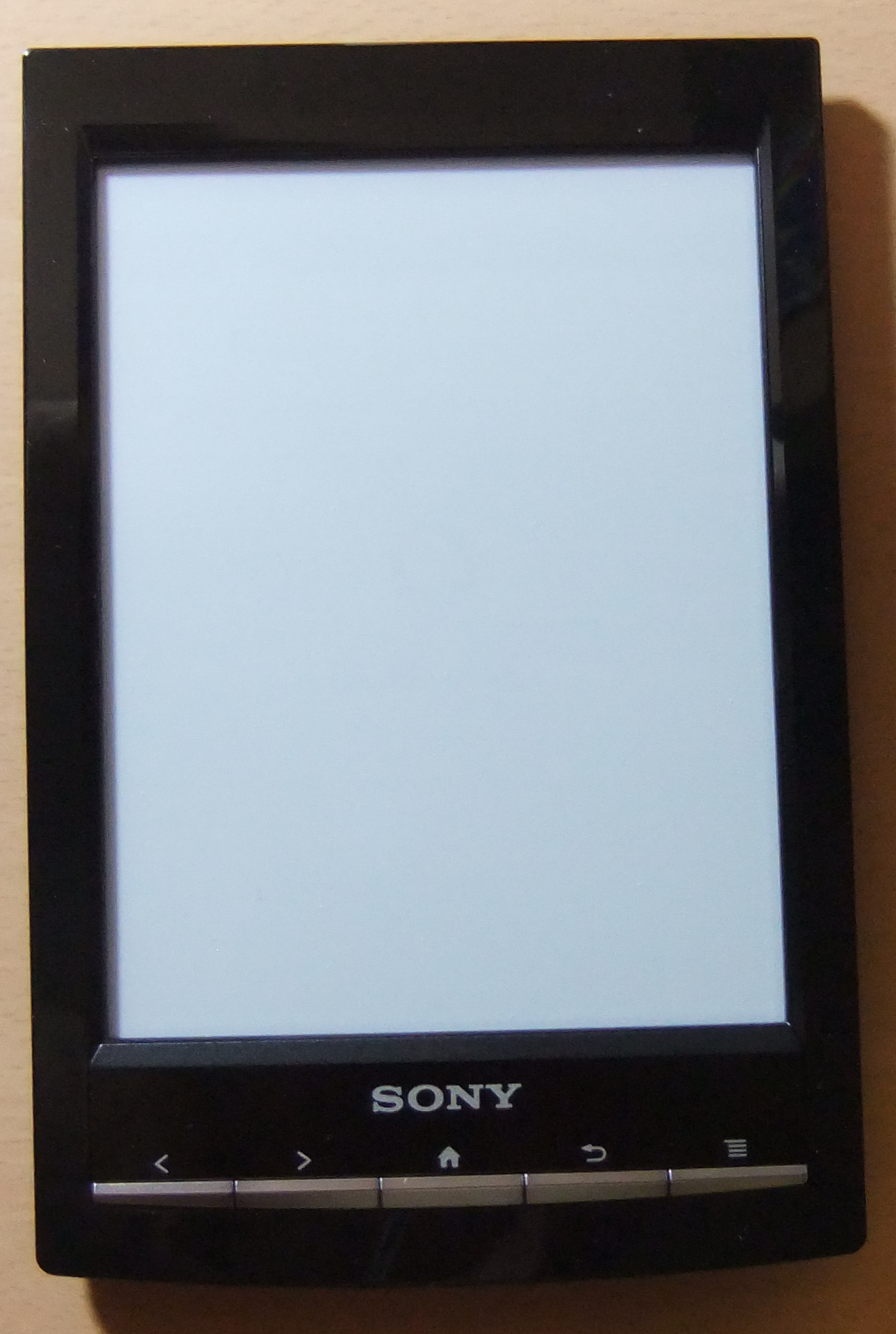 Photograph of the front view of a Sony PRS-T1 Reader, color Black.